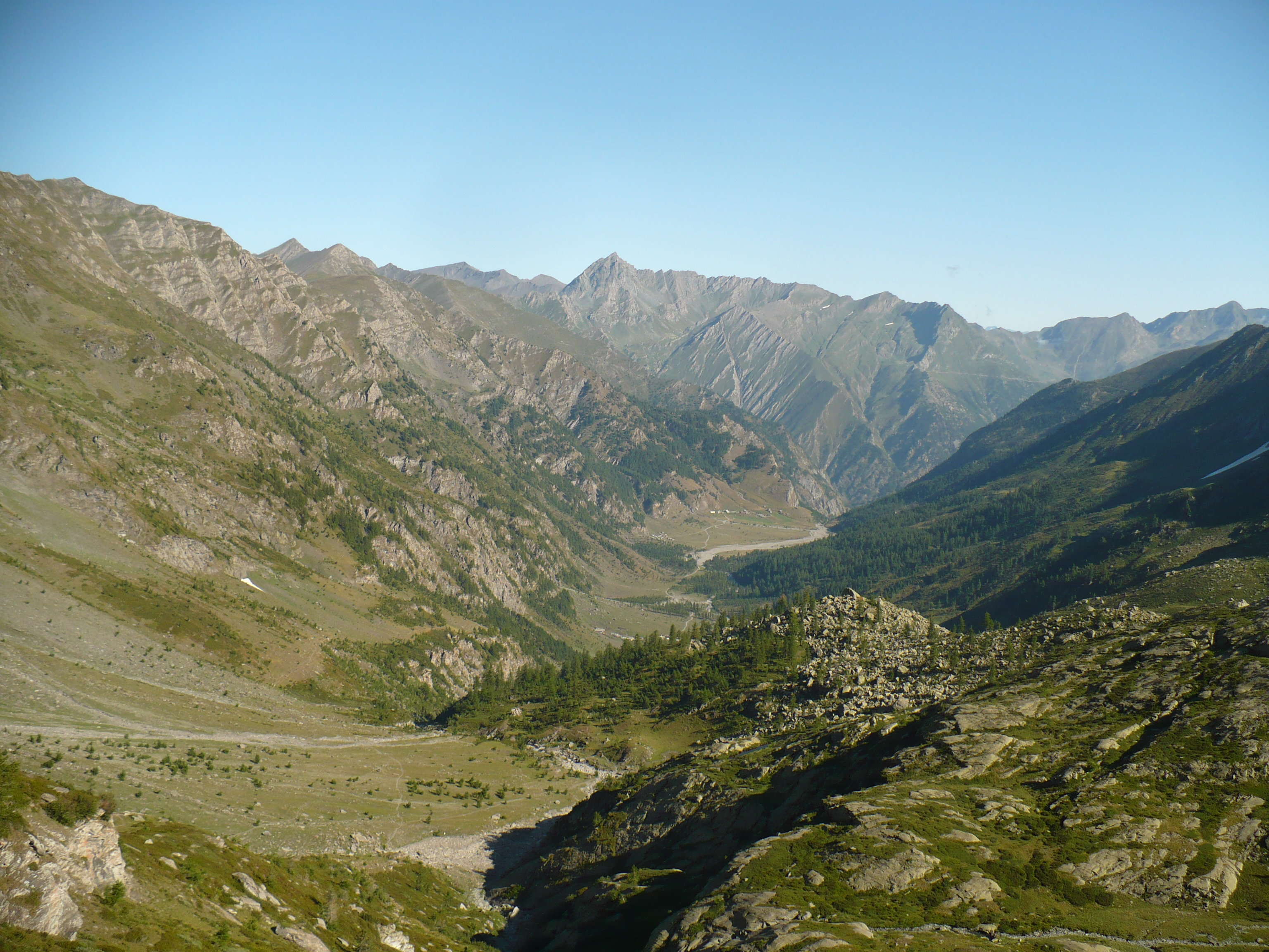 Conca del Pra - Val Pellice - Piedmont - Italy